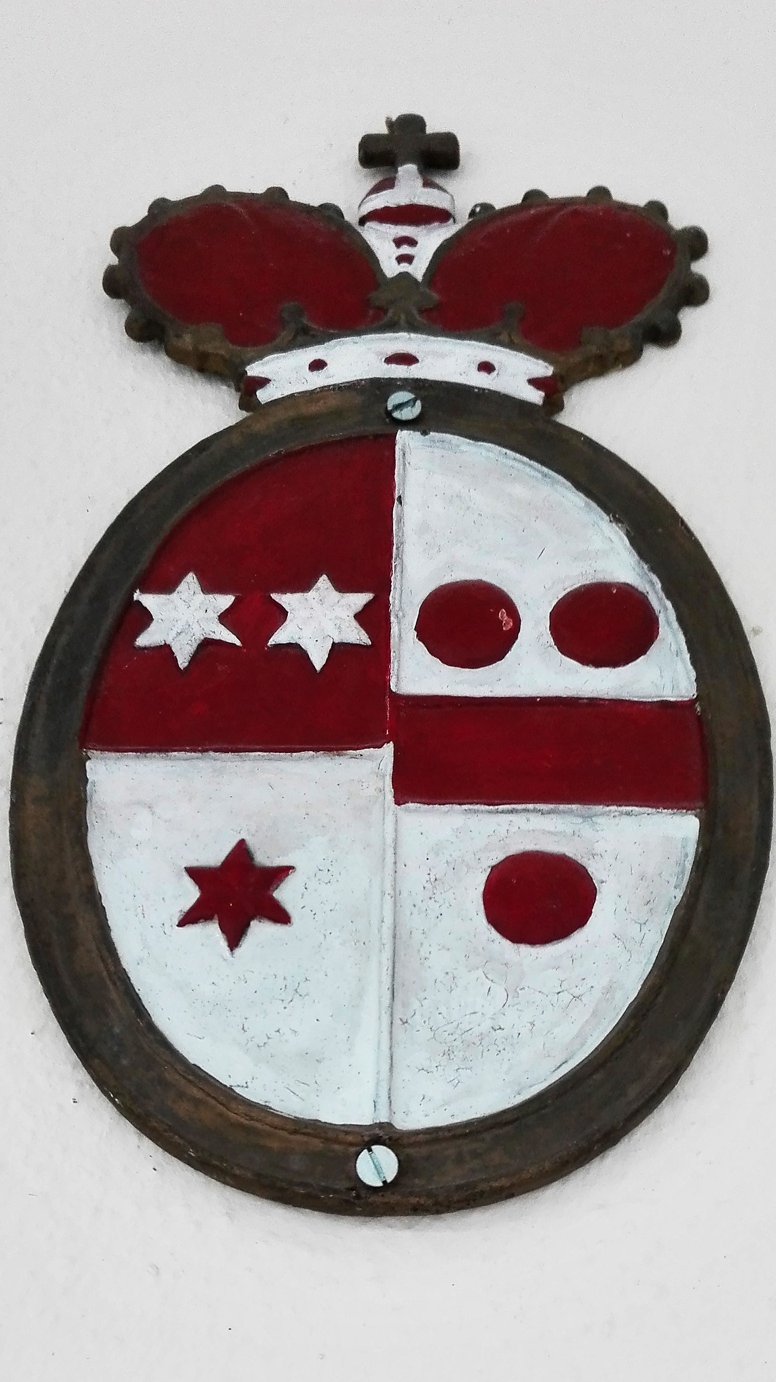 Hauswappen Erbach-Wartenberg